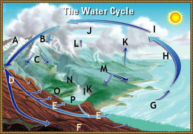 A have to place the terms diagram.